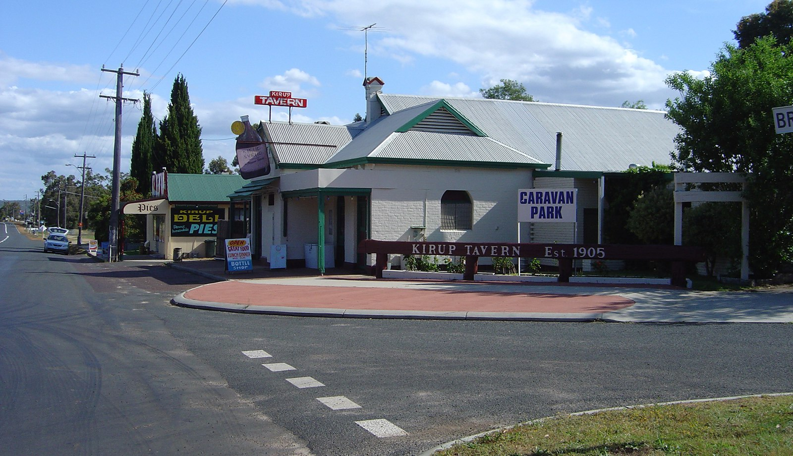 Taken by JAW 27th November 2005 Kirup Tavern and Deli Kirup Western Australia